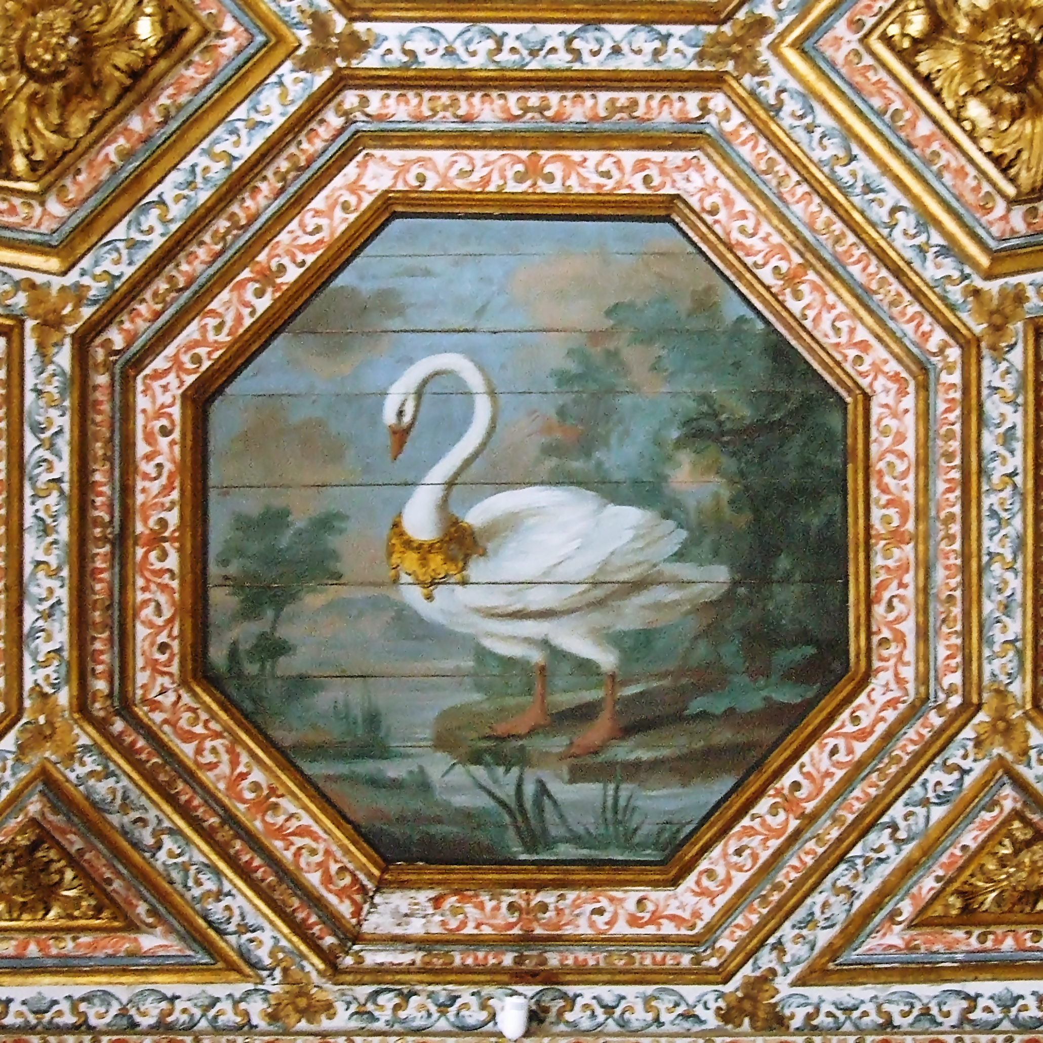 Palácio Nacional de Sintra, Sala dos Cisnes This file was uploaded for Wiki Loves Monuments in Portugal with the unique identifier 69856.